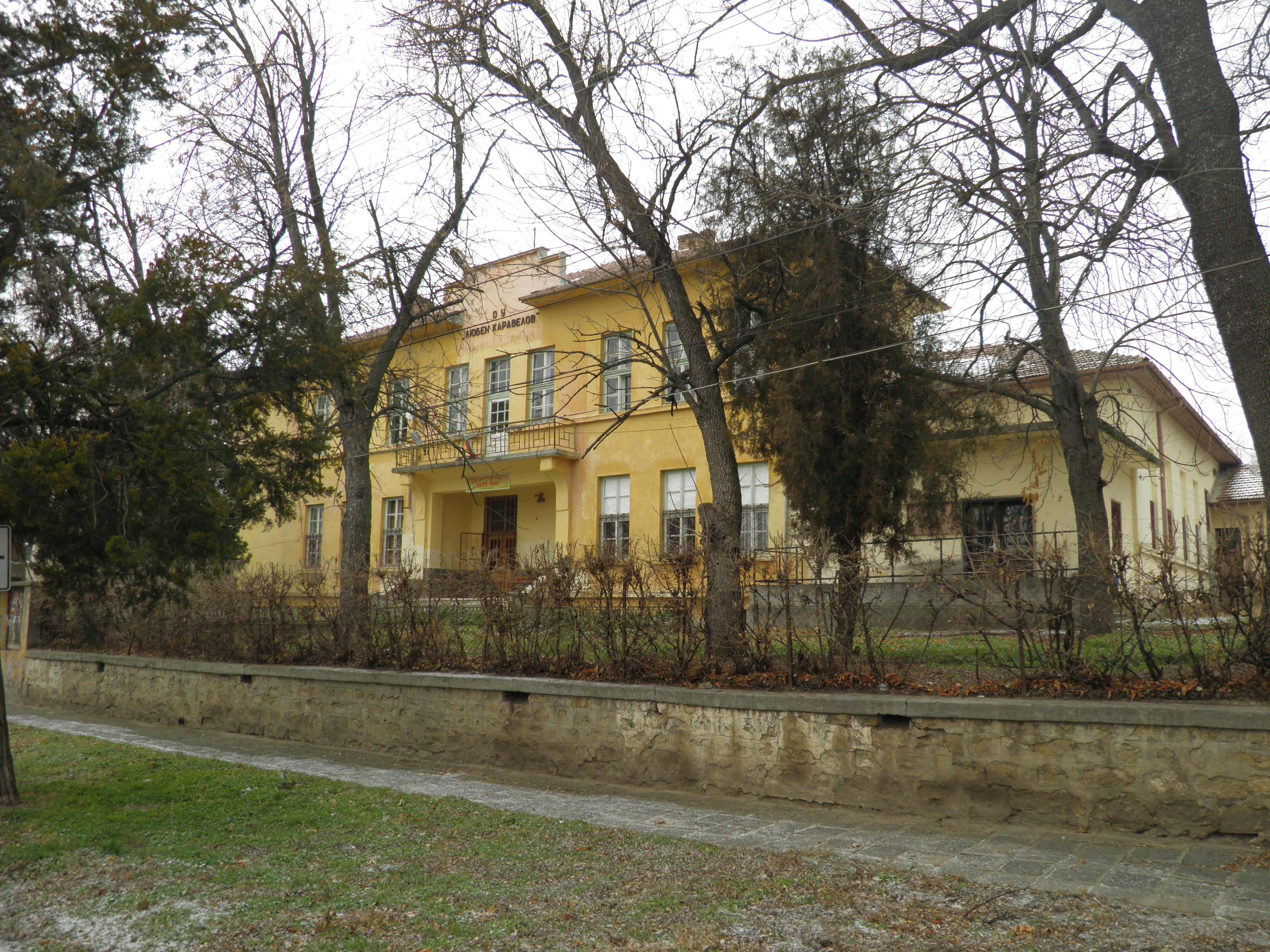 School,Hadzhidimitrovo,Veliko Tarnovo Province